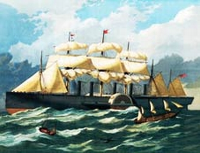 Great Eastern At Sea, the great ship of IK Brunel as imagined at sea by the artist at her launch in 1858 This picture is the copyright of the Lordprice Collection and is reproduced on Wikipedia with their permission